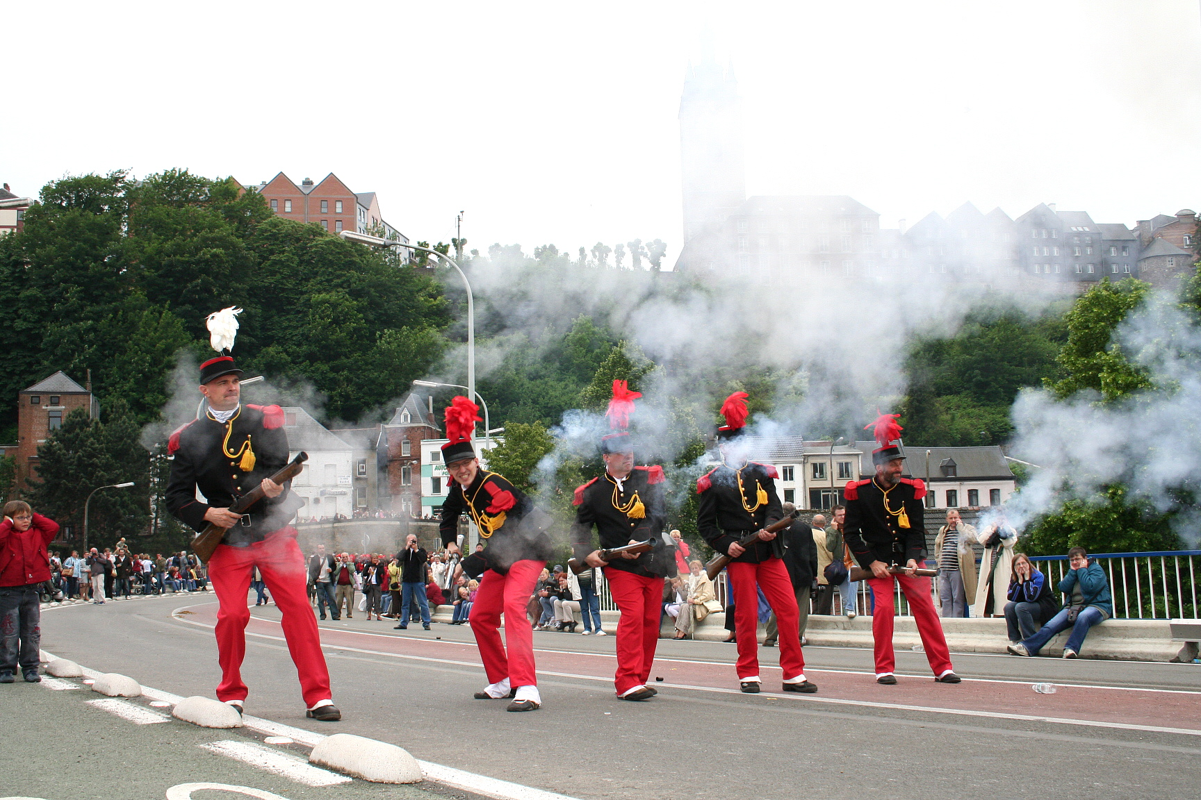 Thuin (Belgium), the 1st company of zouaves in the St. Roch procession.